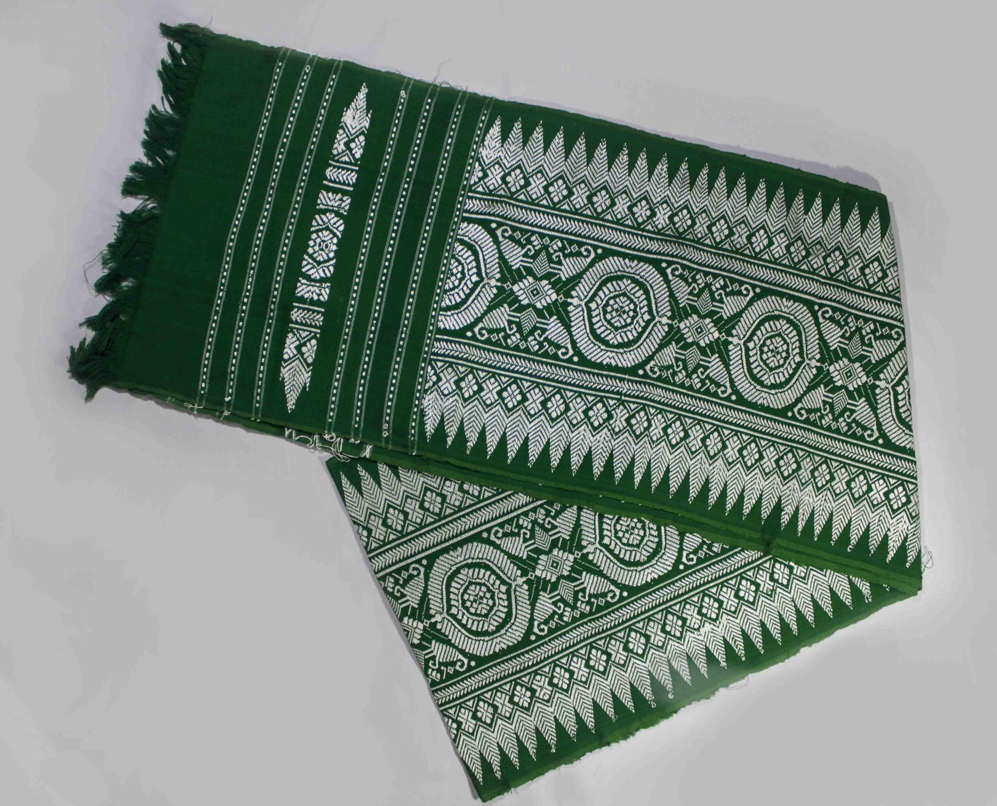 Bodo traditional attire.